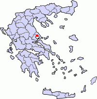 locator map, based on Image:Prefectures Greece grey.png